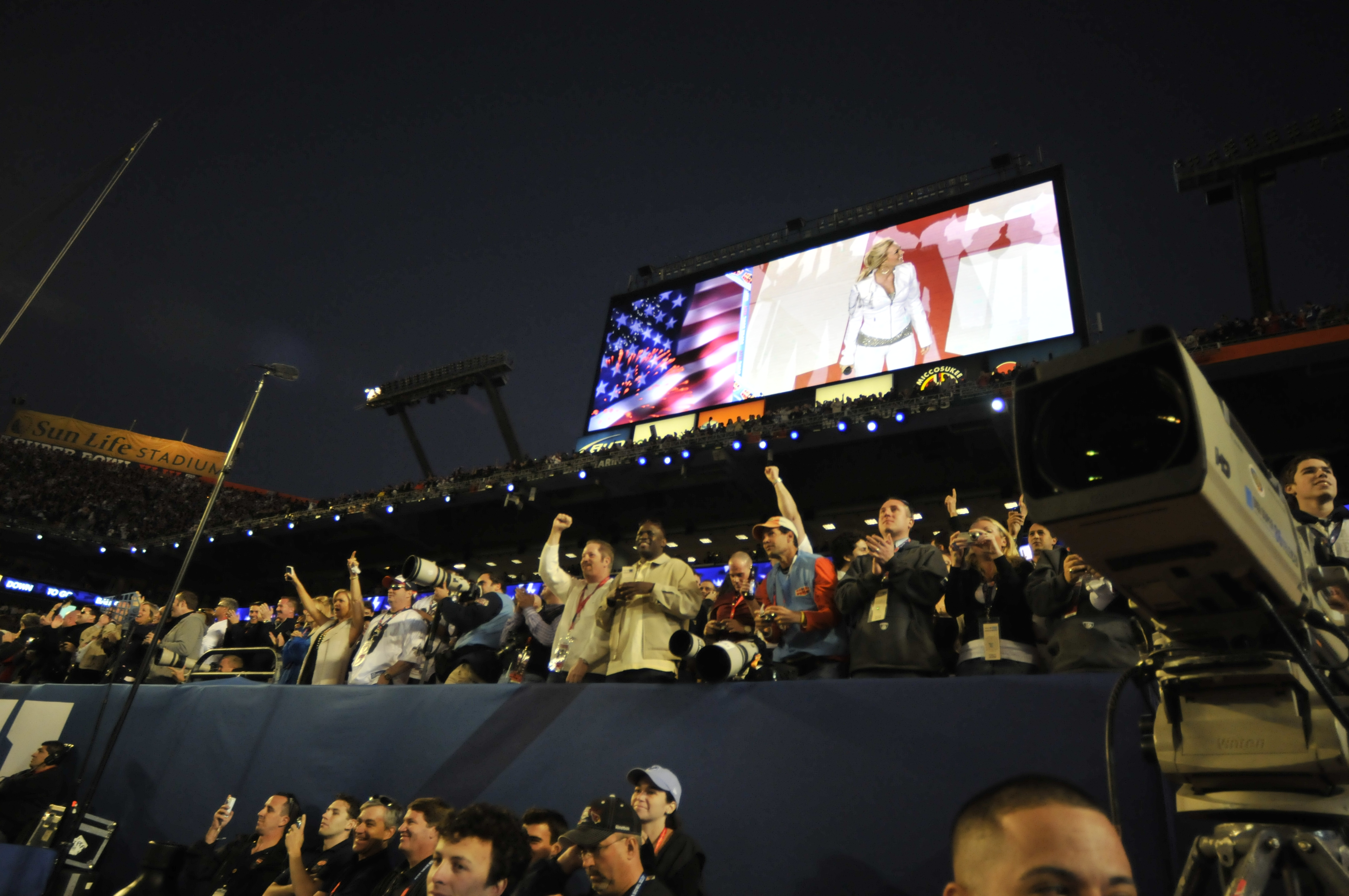 Football fans cheer as four F-15 Eagle fighter aircraft from the 125th Fighter Wing (FW), Florida Air National Guard perform a flyover as part of Super Bowl XLIV pregame activities at Sun Life Stadium in Miami, Fla.